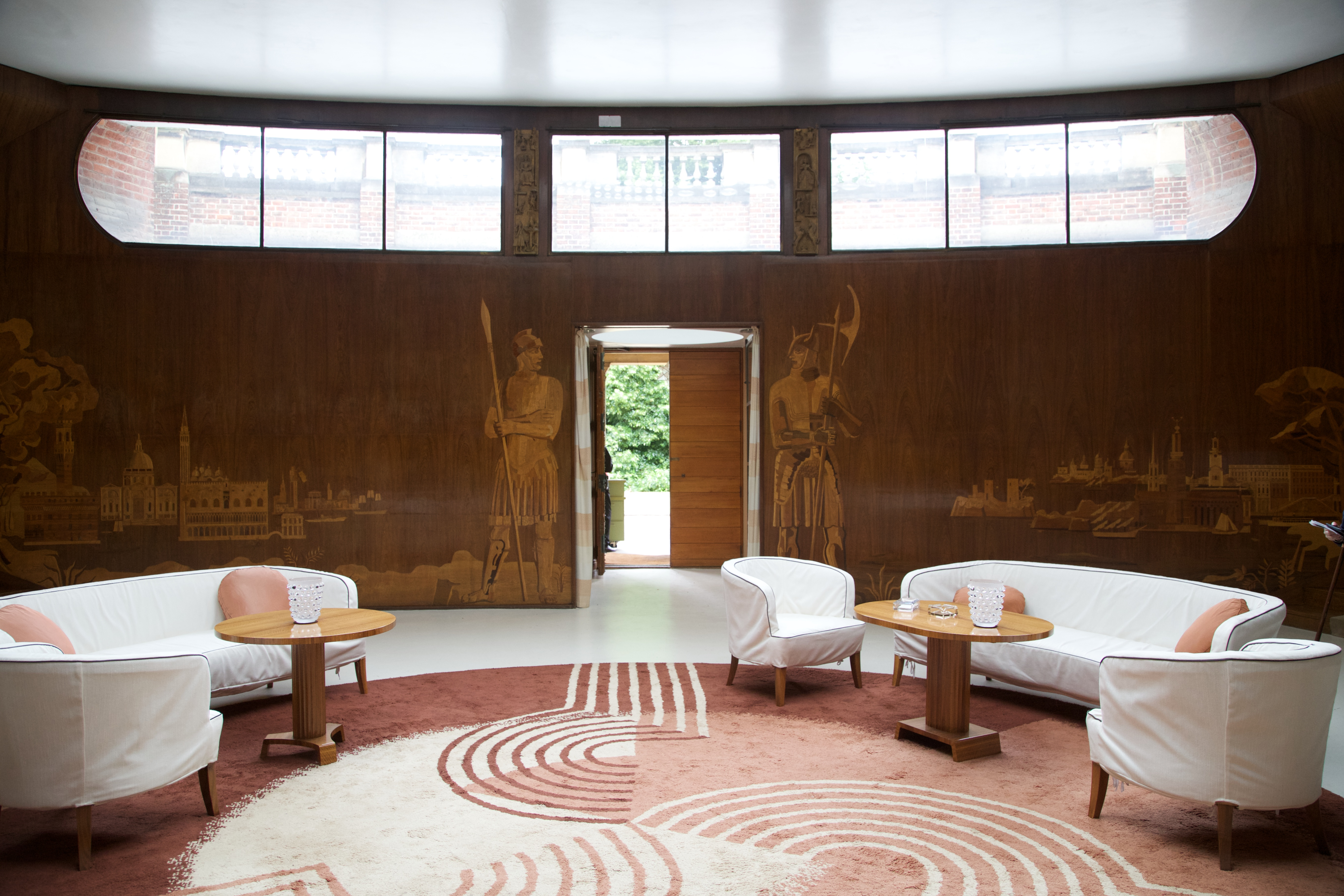 Eltham Palace